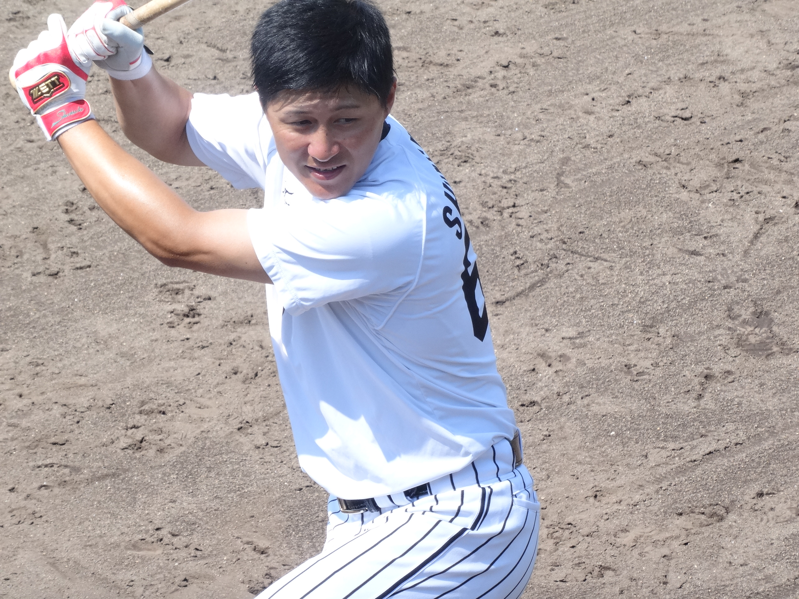 Shunsuke Fujikawa, outfielder of the Hanshin Tigers, at Hanshin Naruohama Baseball Ground